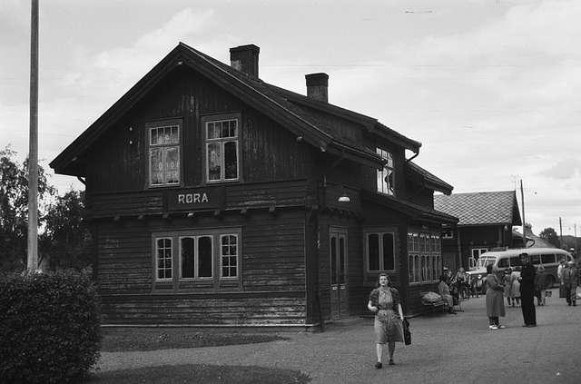 Røra railway station on Nordlandsbanen in Inderøy, Norway